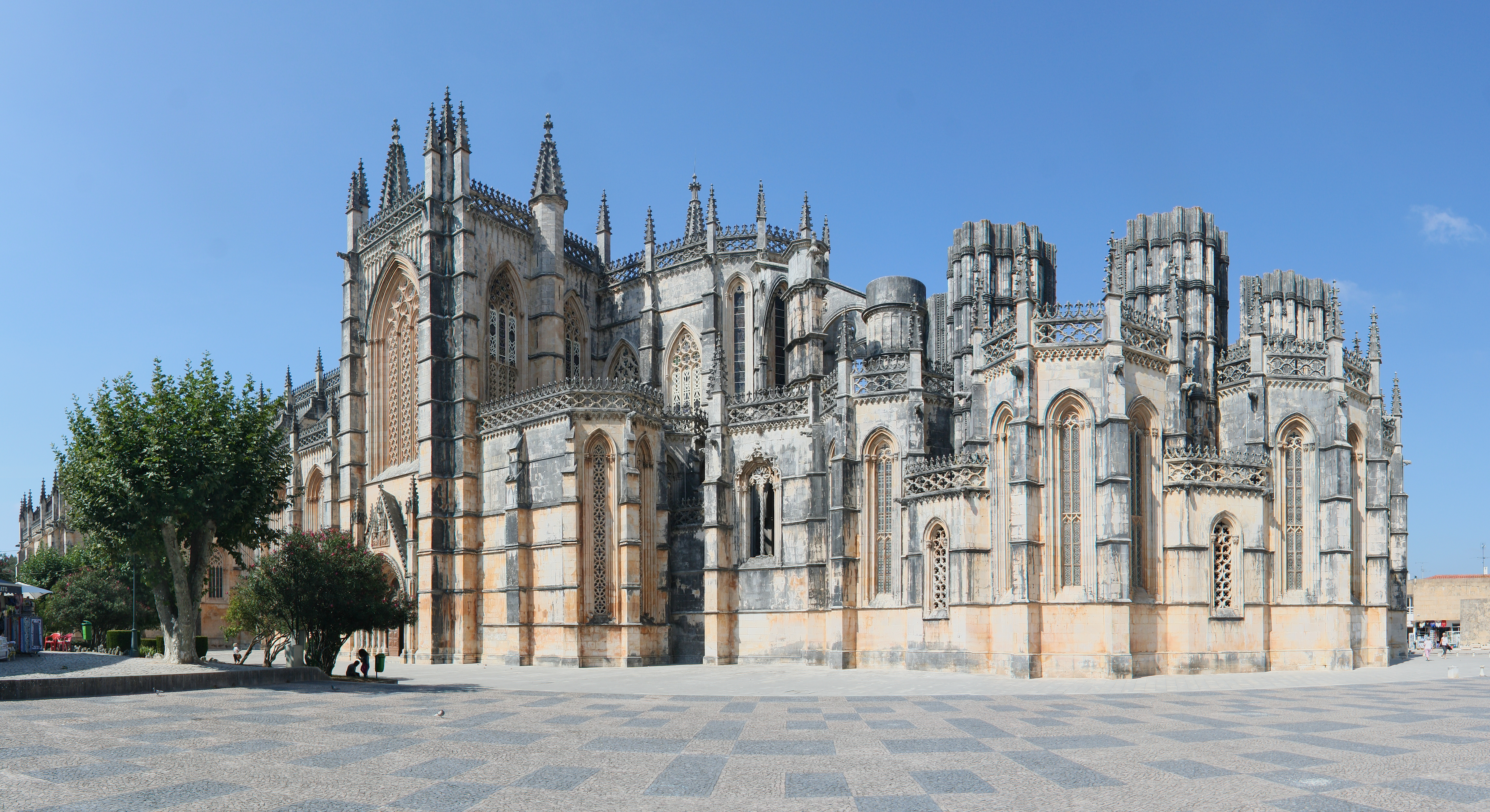 Batalha monastery frontside